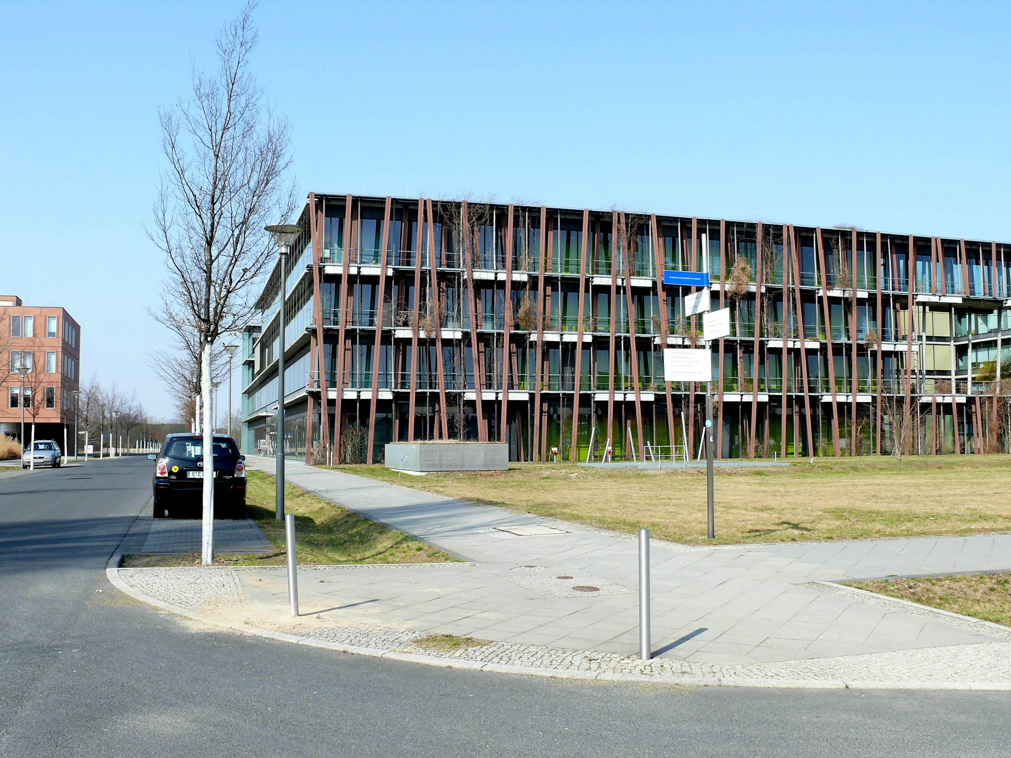 Berlin-Adlershof Newtonstraße Lise-Meitner-Haus